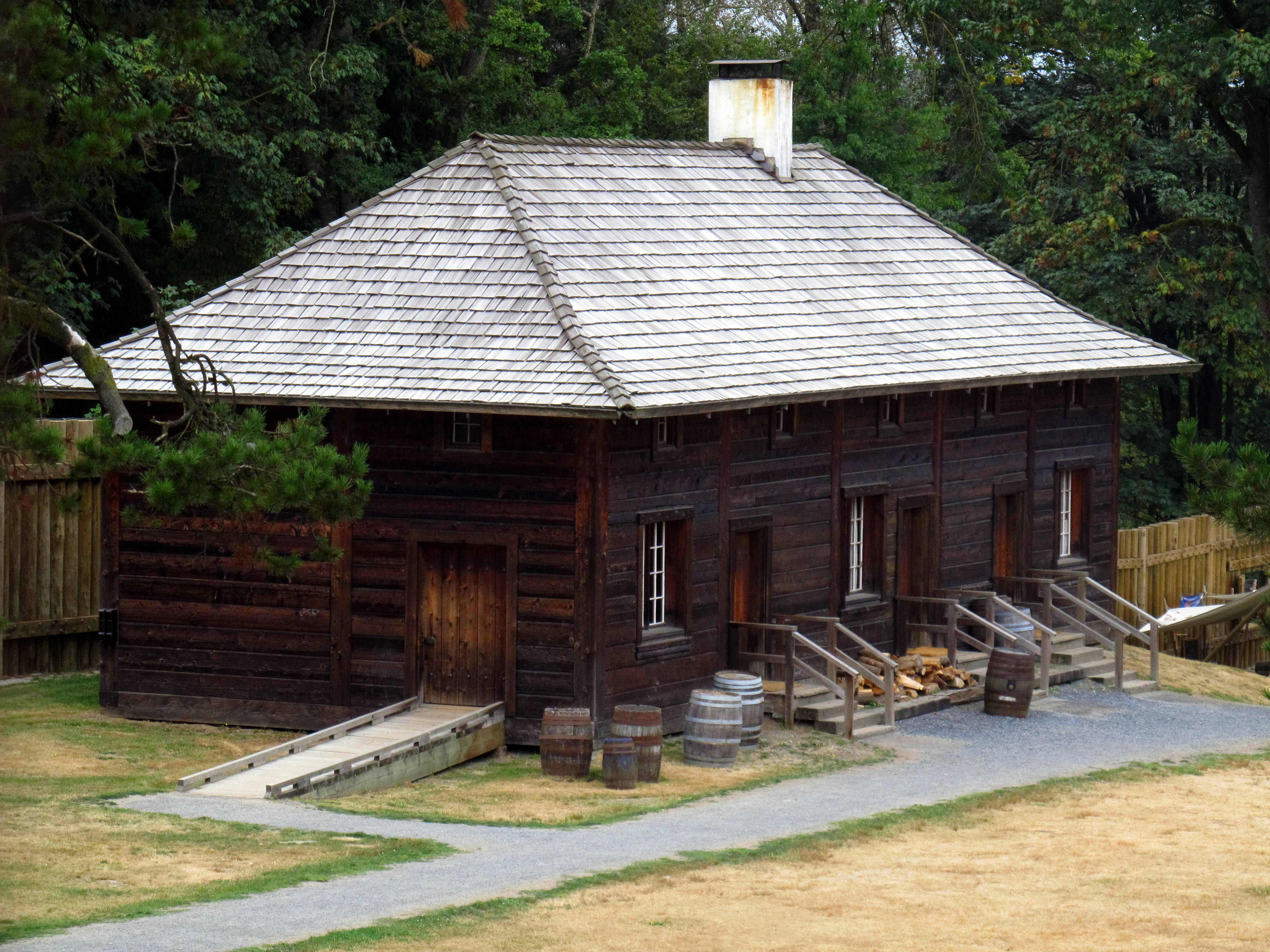 Servants' Quarters